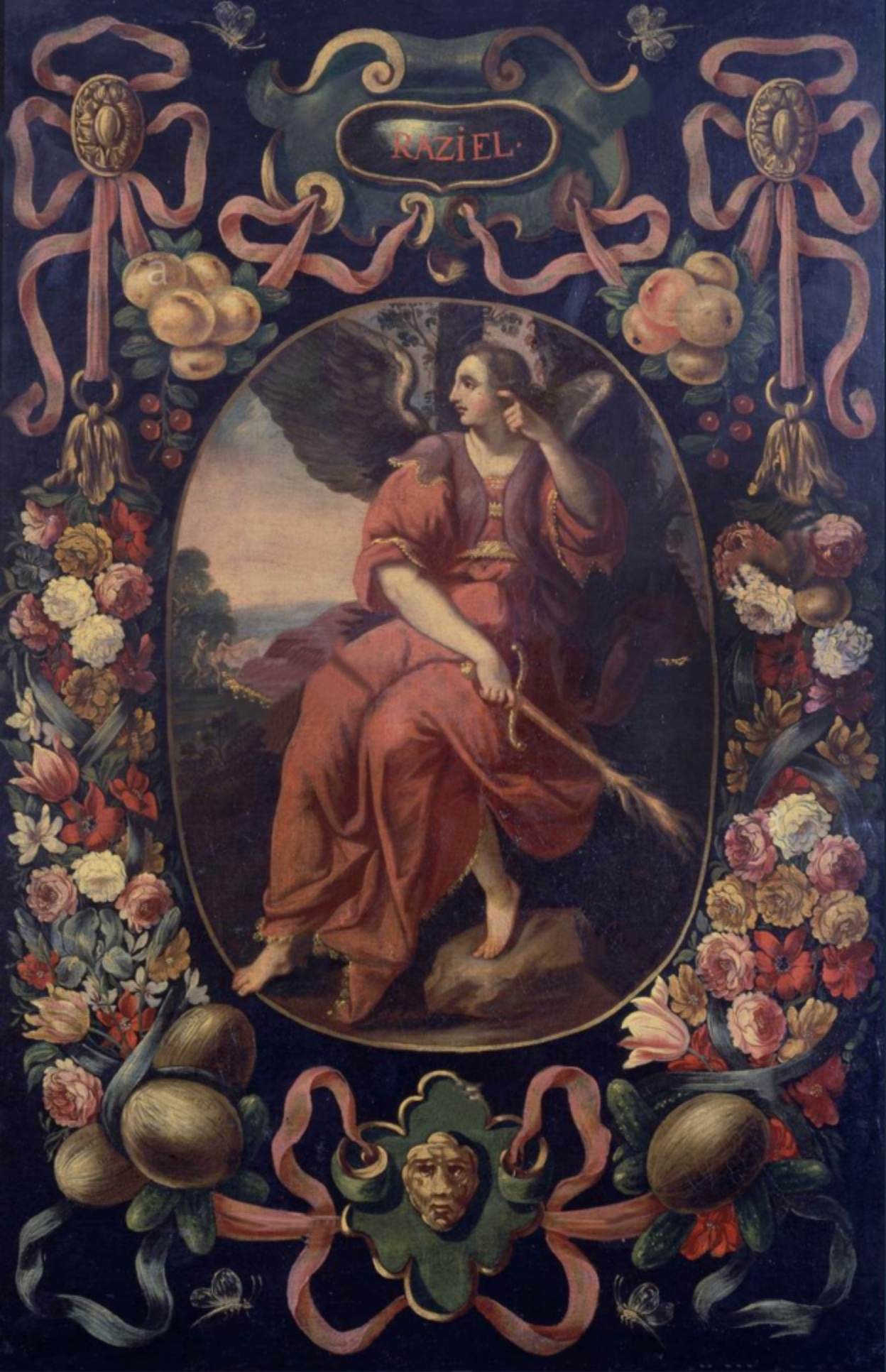 Archangel Raziel, Spanish School painting.